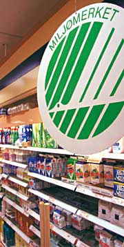 Nordic ecolabel